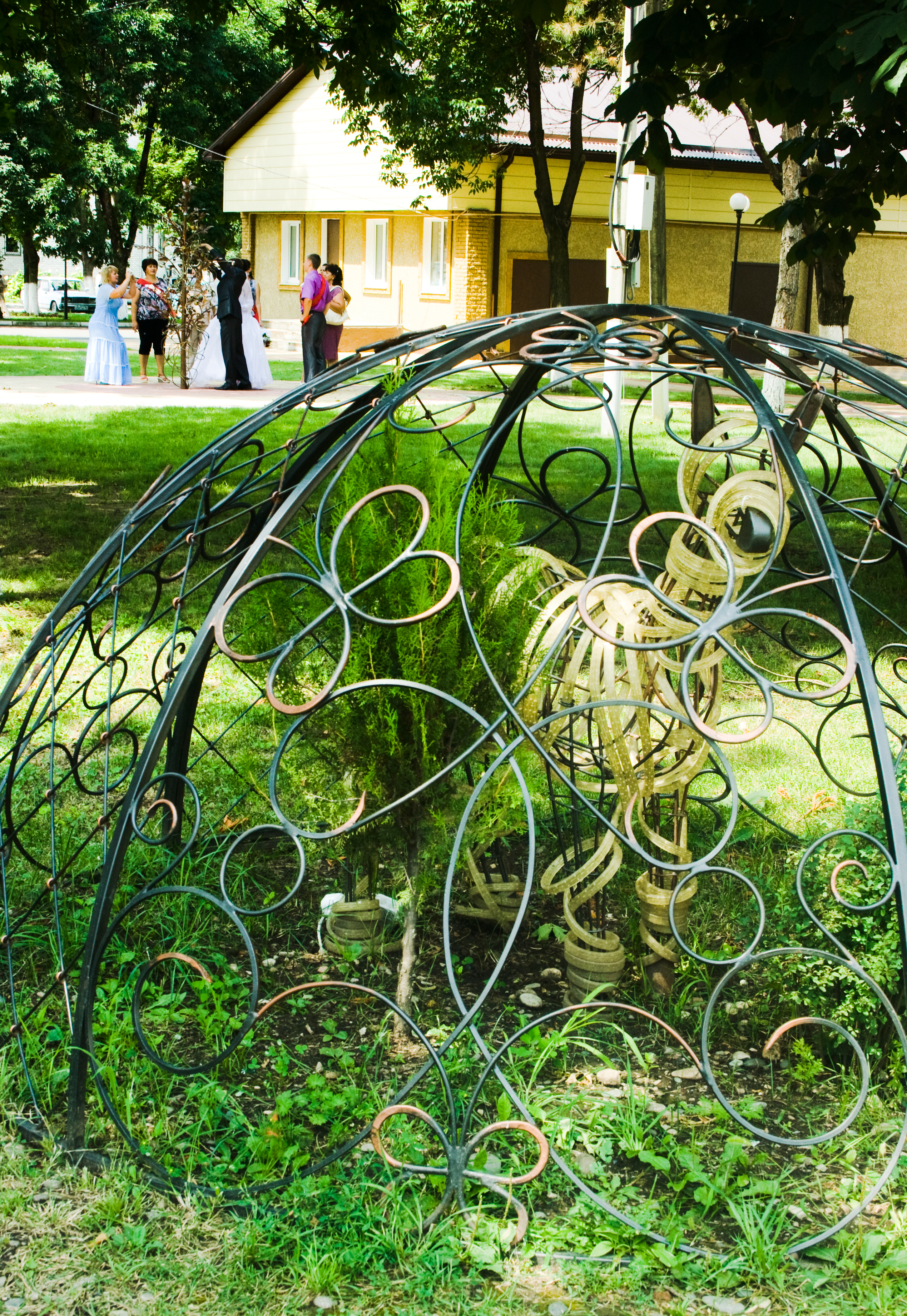 Мостовской 2011 (0002)